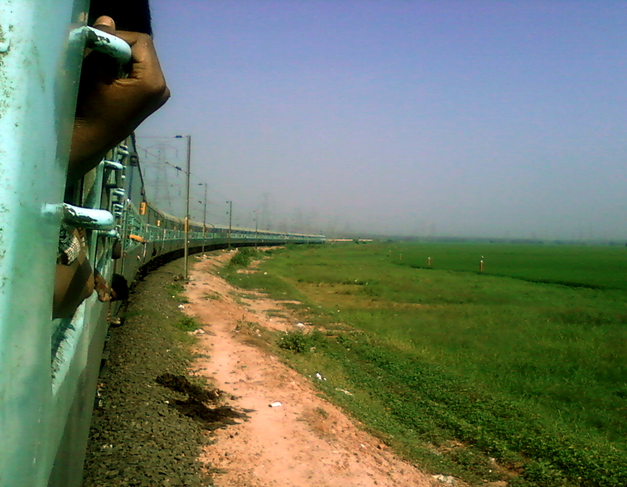 Ratnachal express tail at Rajahmundry